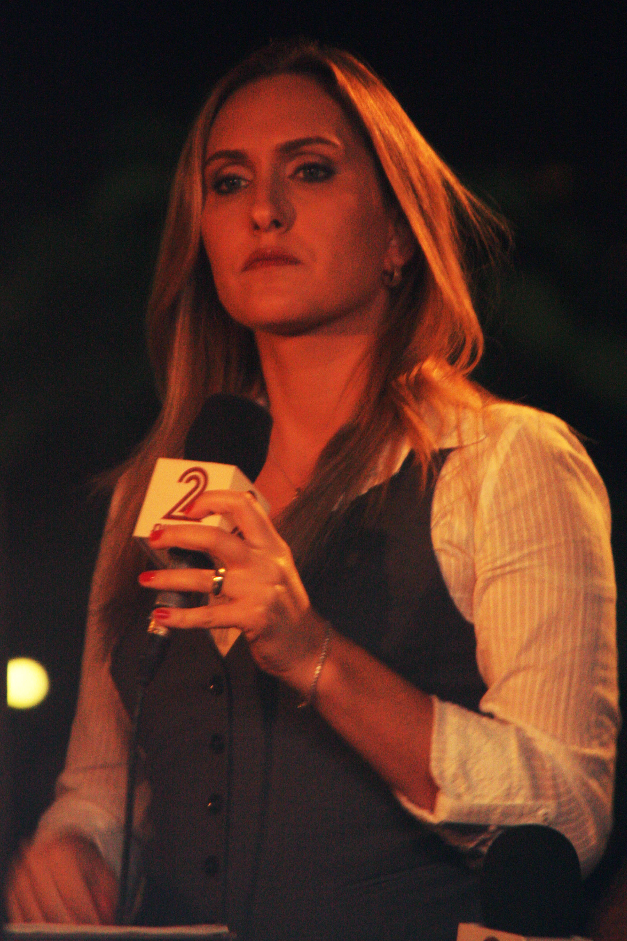 Keren Martziano